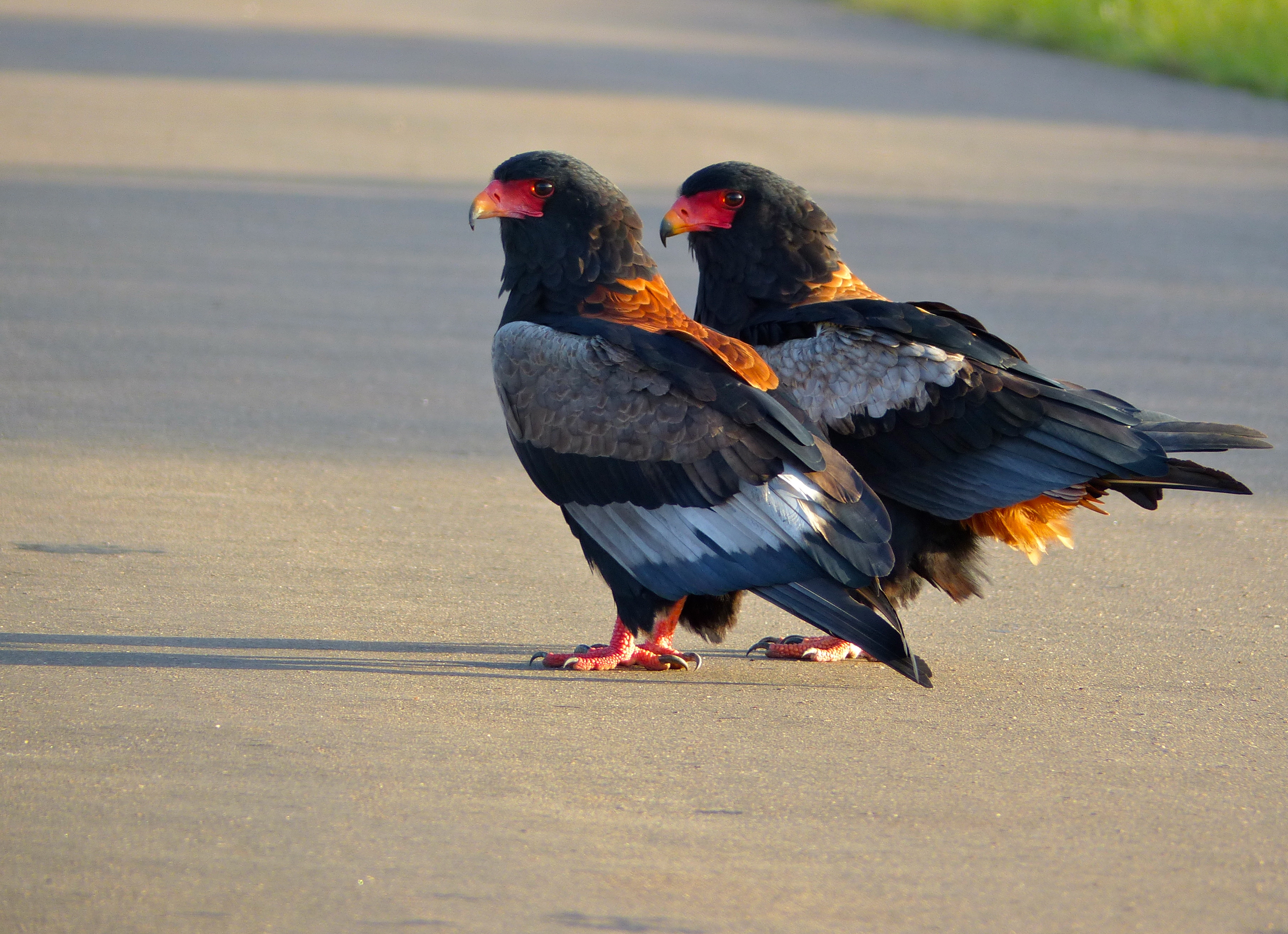 H10 Road North of Lower Sabie, Kruger NP, SOUTH AFRICA